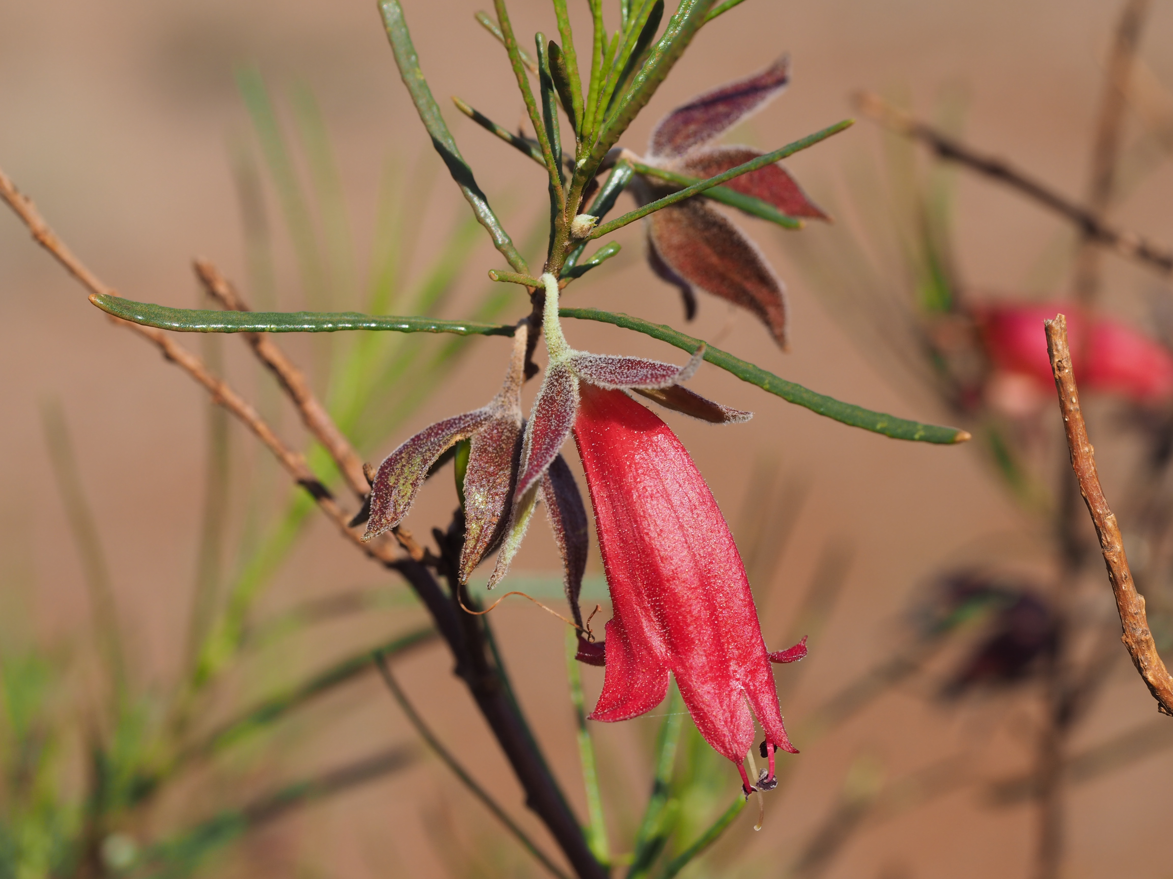 Eremophila latrobei filiformis growing about 2km south along the "Prairie Downs" track